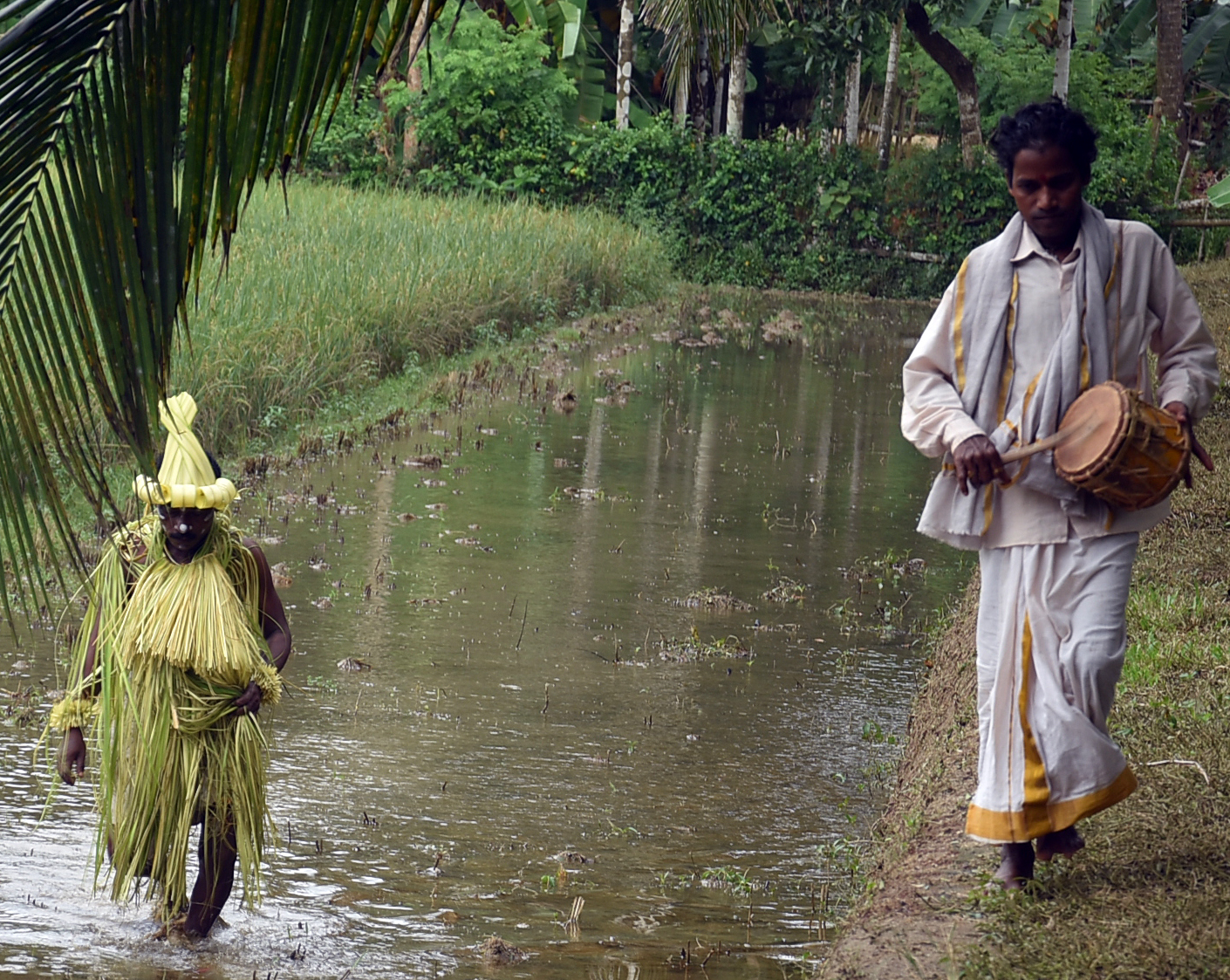 Kori Kambala at Kenya Guttu